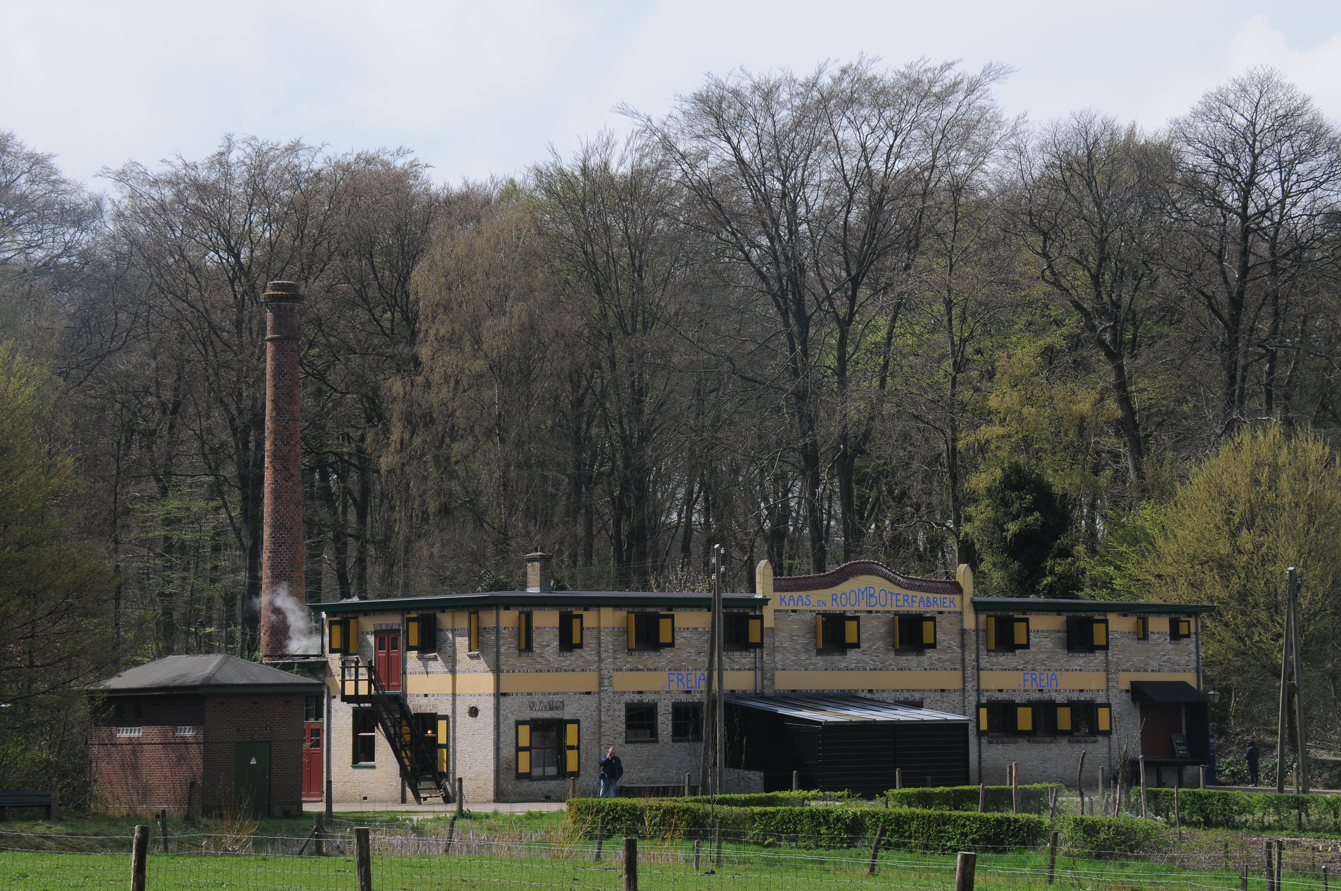 Old Butter and chese factory Freya at NOM Arnhem